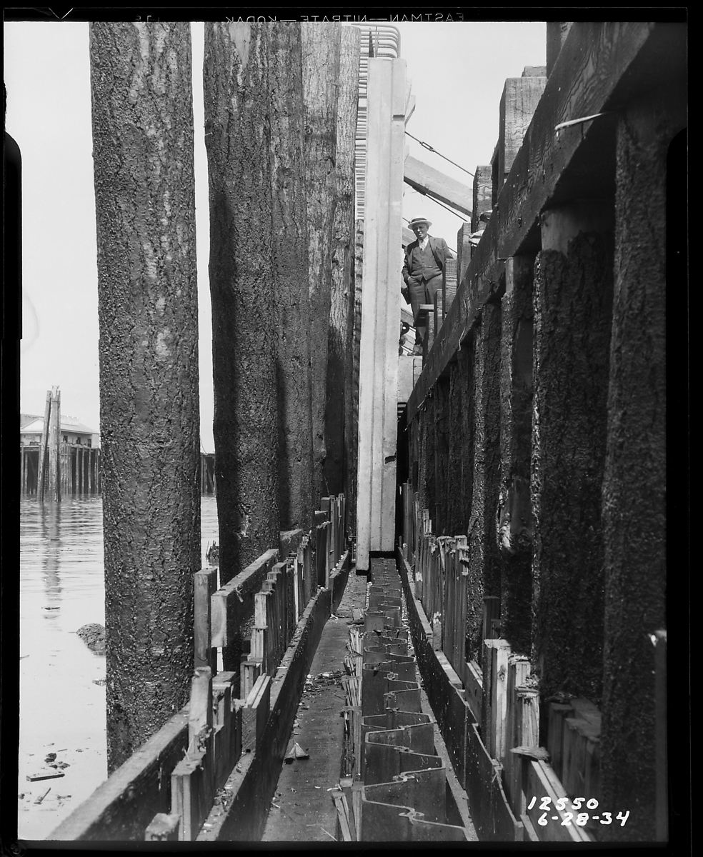 Central Waterfront seawall construction, 1934. Item 144761, Fleets and Facilities Department Imagebank Collection (Record Series 0207-01), Seattle Municipal Archives.